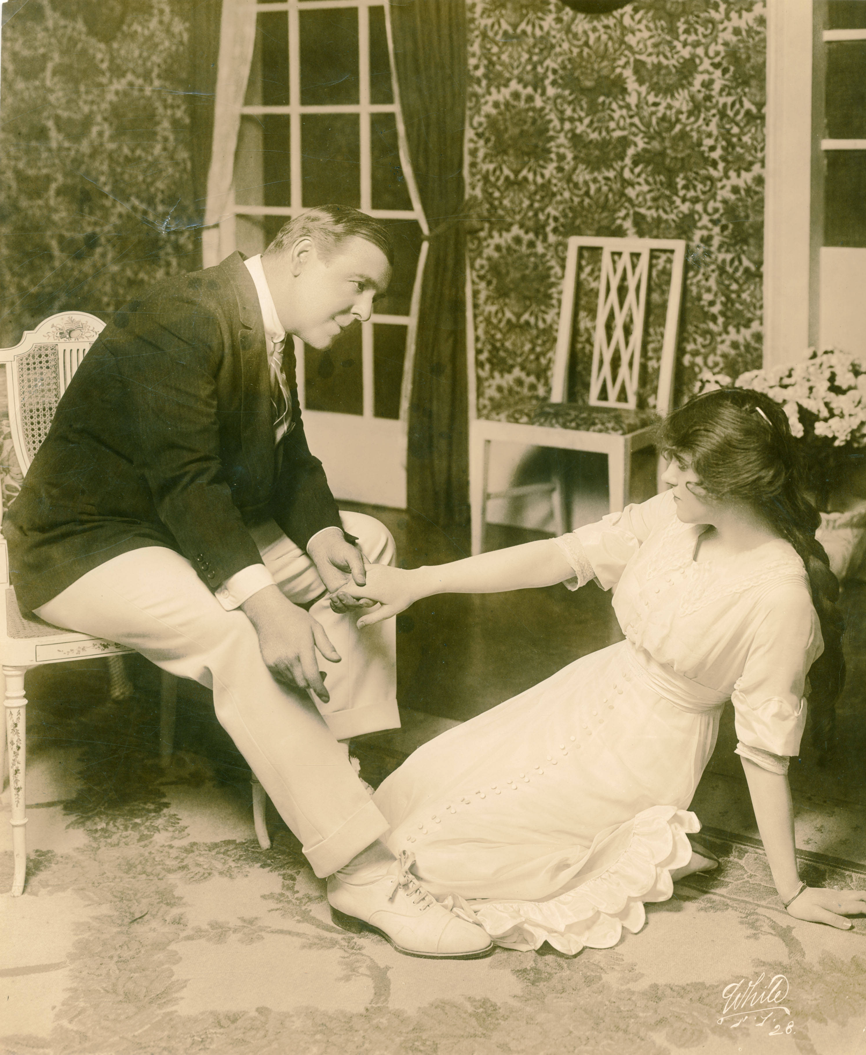 A scene from "The Rainbow," which opened Oct. 20, 1913, at the Metropolitan Theater, Seattle. Includes Henry Miller and Ruth Chatterton. Subjects: plays, actors, actresses